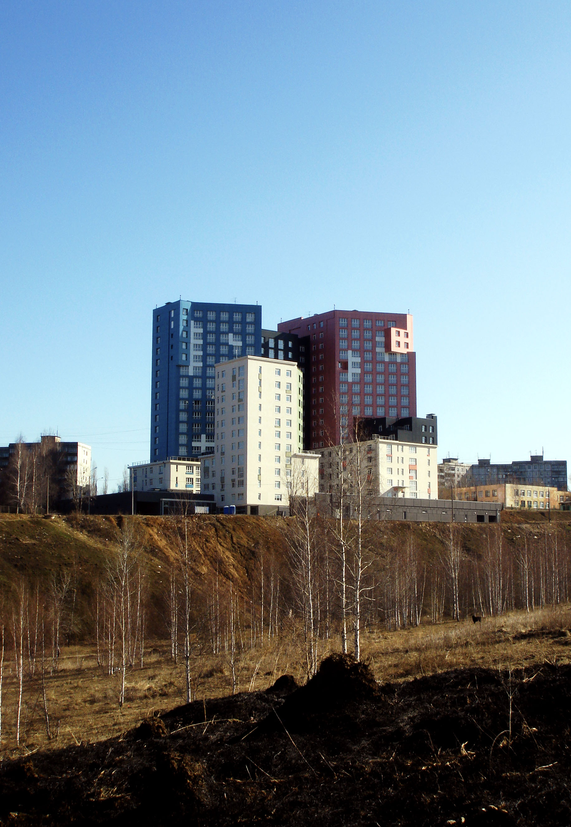 Residential complex "Maxima" in Verkhnie Pechyory, Nizhnij Novgorod.